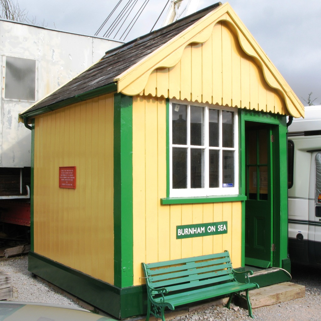 The signal box that used to controll trains at Burnham-on-Sea station in Somerset, England, is now on display at the Somerset and Dorset railway trust's museum at Washford.